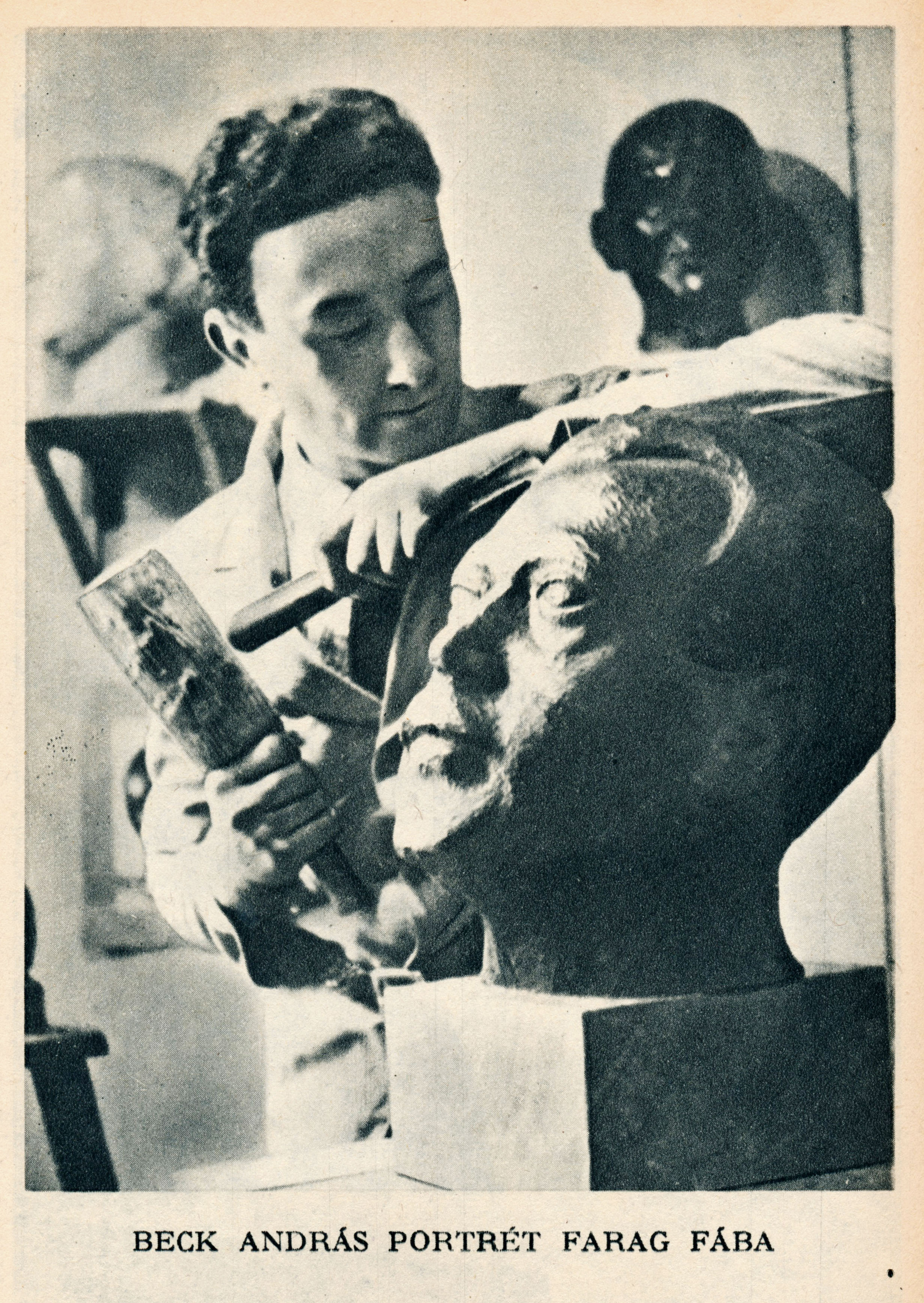 Andras Beck Hungarian sculptor - creates wood sculptures